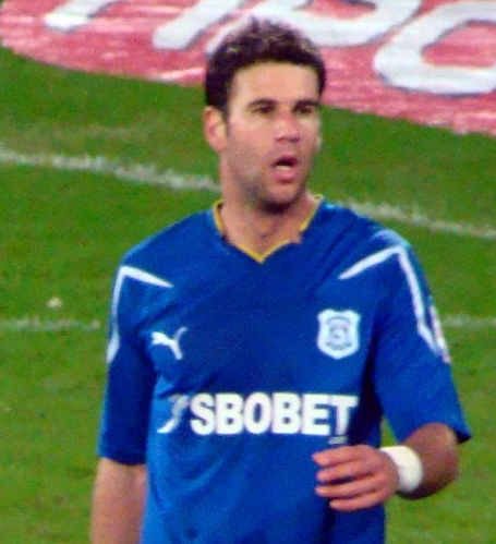 Cardiff V Burnley, Championship, Cardiff City Stadium, Cardiff, Wales